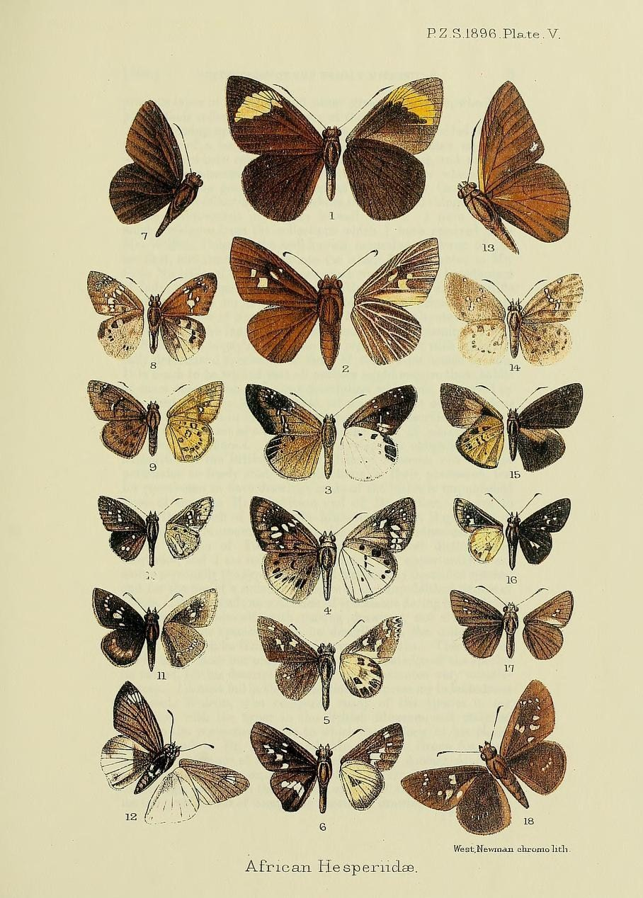 William Jacob Holland, 1896 A Preliminary Revision and Synonymic Catalogue of the Hesperiidae of Africa and the adjacent Islands, with Descriptions of some apparently new species Proc. zool. Soc. Lond. 1896 (1) : 2-107, pl. 1-5 Plate 5 text figure 1 Choristoneura apicalis (Mabille, 1889) synonym for Katreus johnstonii (Butler, 1887) male figure 2 Ploetzia nobilior Holland, 1896 synonym for Zophopetes nobilior(Holland, 1896) female figure 3 Sarangesa theclides Holland, 1896 synonym for Eagris subalbida (Holland, 1893) male figure 4 Eagris fuscosa synonym for Eagris decastigma fuscosa (Holland, 1893) female figure 5 Caenides zaremba synonym for Gretna zaremba(Plötz, 1884) male figure 6 Baoris statirides synonym for Melphina statirides (Holland, 1896) male figure 7 Acallopistes dimidia Holland, 1896 synonym for Loxolexis dimidia (Holland, 1896) male figure 8 Eagris denuba(Plötz, 1879) male figure 9 Sarangesa eliminata Holland, 1896 synonym for Sarangesa phidyle (Walker, 1870) male figure 10 Gorgyra mocquerysii Holland, 1896 male figure 11 Platylesches amadhu (Mabille, 1891) synonym for Platylesches moritili(Wallengren, 1857) male figure 12 Abantis efulensis Holland, 1896 male figure 13 Acallopistes holocausta synonym for Loxolexis holocausta (Mabille, 1891) male figure 14 Sarangesa thecla (Plötz, 1879) male figure 15 Tricosemeia subolivescens Holland, 1892 synonym for Eagris tetrastigma(Mabille, 1891) male figure 16 Gorgyra subflavidus Holland, 1896 male figure 17 Semalea pulvina(Plötz, 1879) figure 18 Caenides podora Plötz, 1884 synonym for Parnara monasi(Trimen, 1889) female